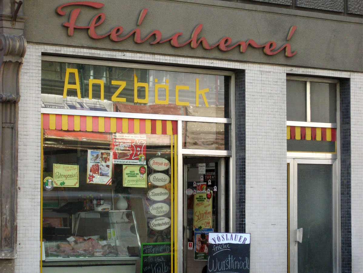 Fleischerei Anzböck, Westbahnstraße 39, Neubau. Examples for differing vocabulary in Austrian Standard German A butcher's shop is called "Fleischerei", "Fleischhauerei" or "Fleischhacker" and there you might buy a "Putengeselchts", "Wurstknödel", "Leberkäs" and "Schnitzel".